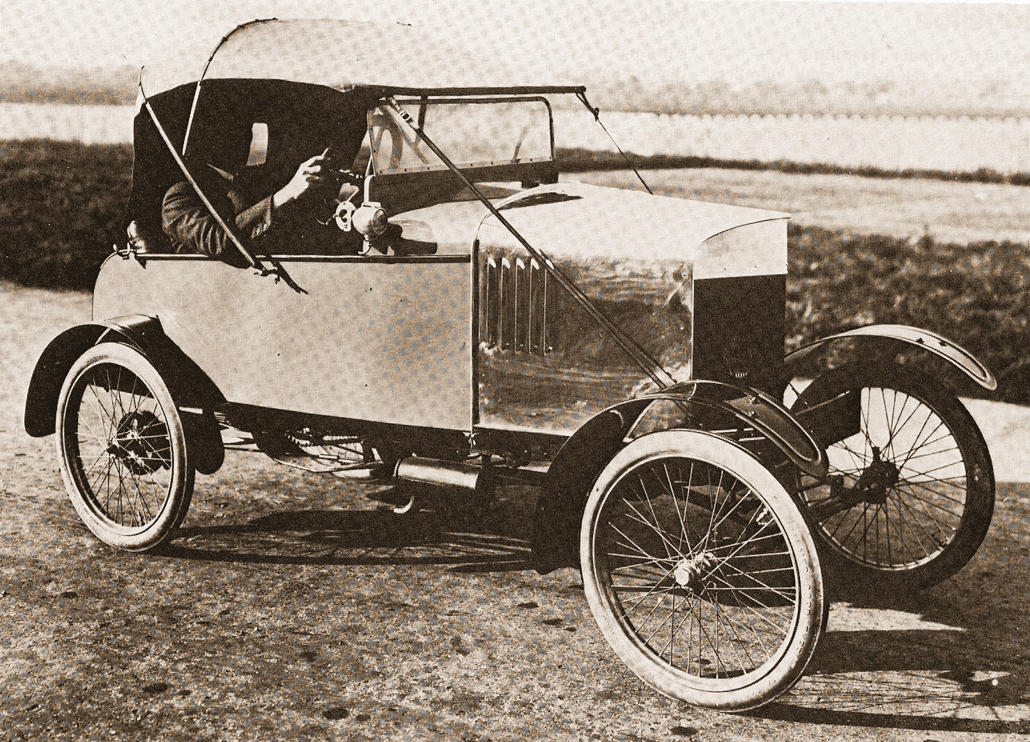 1920 Grahame-White cyclecar